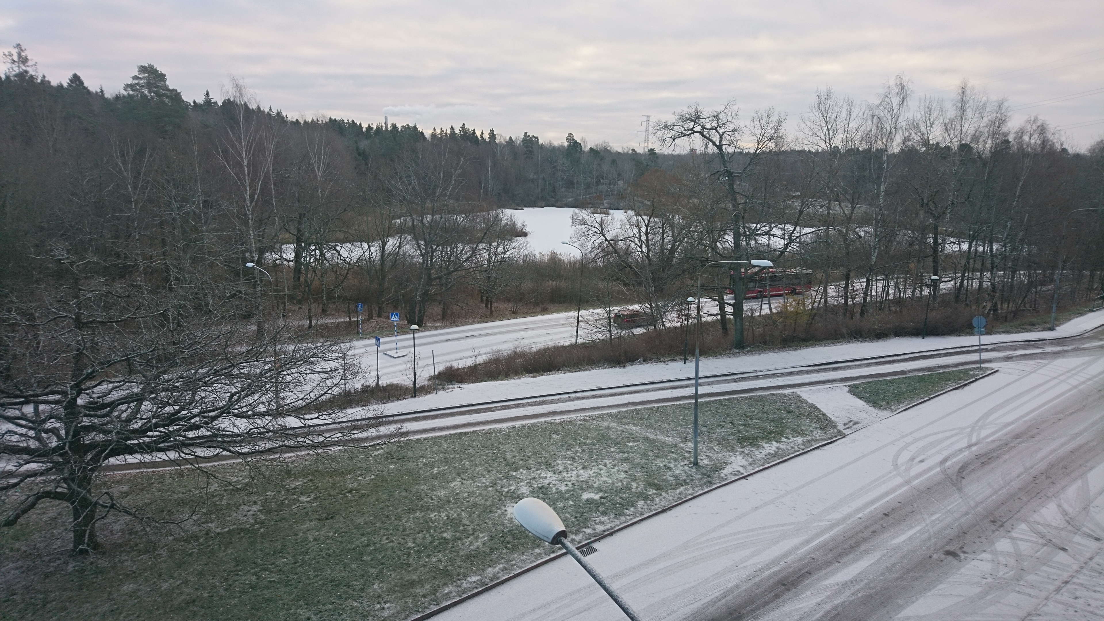 Lake Lappkärret on a snowy day from above